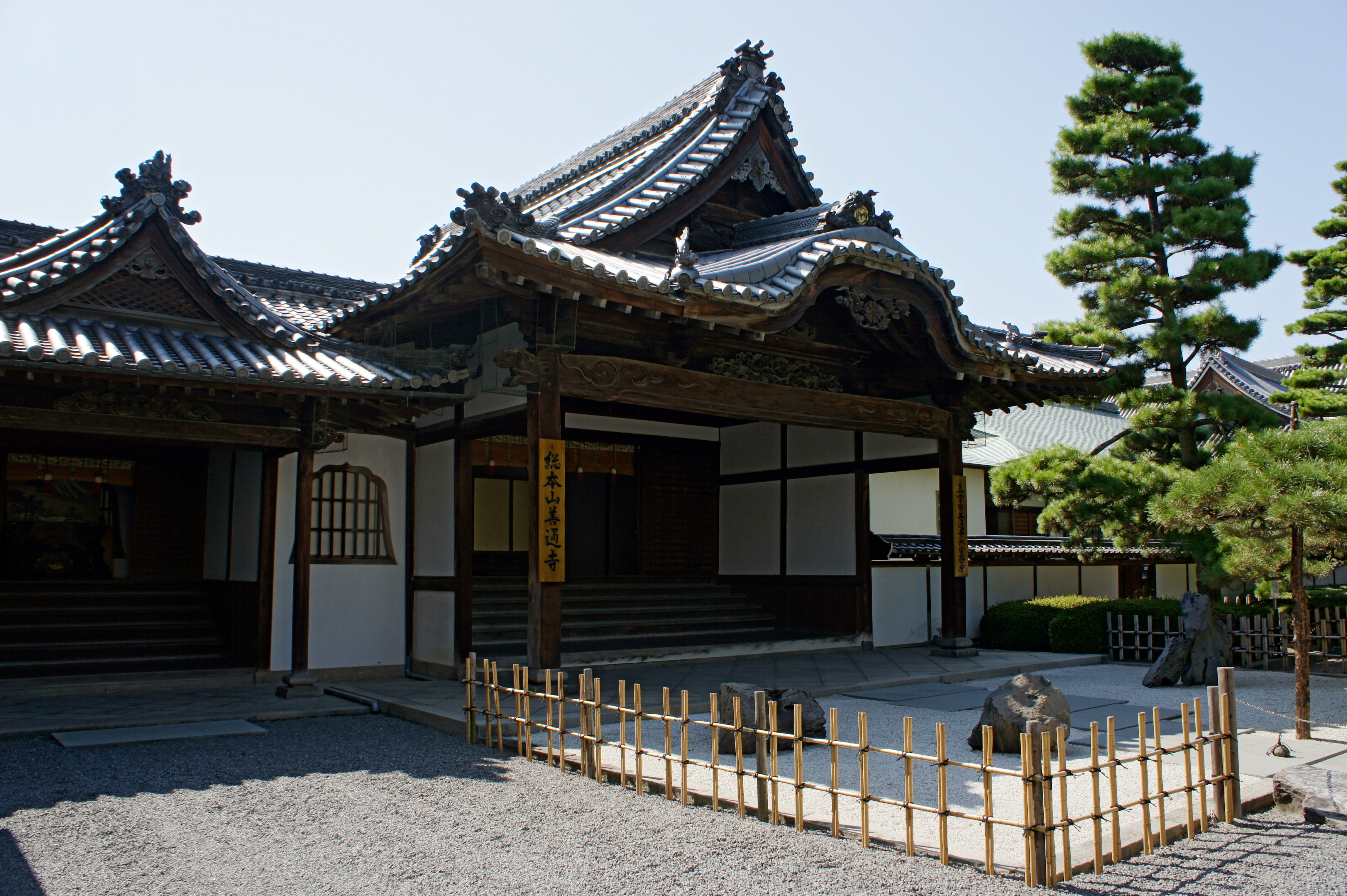 Shingon Buddhism Zentsuji-ha office in Zentsu-ji, Zentsuji, Kagawa prefecture, Japan.